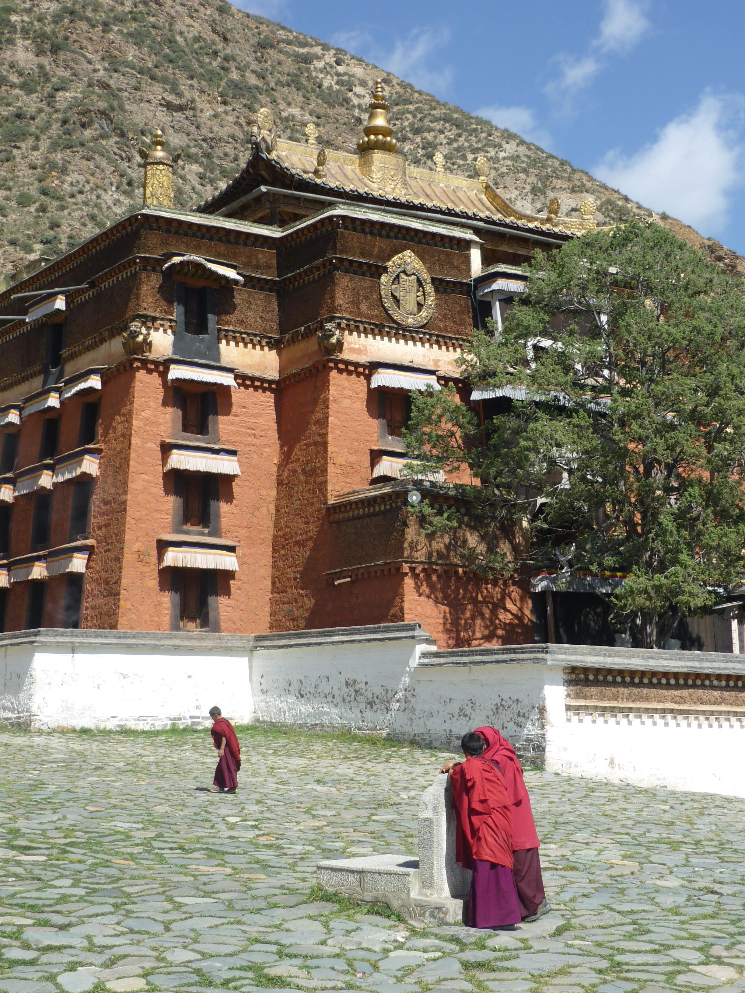 Labrang Monastery (Tibetan: བླ་བྲང་བཀྲ་ཤིས་འཁྱིལ་ Wylie: bla-brang bkra-shis-'khyil